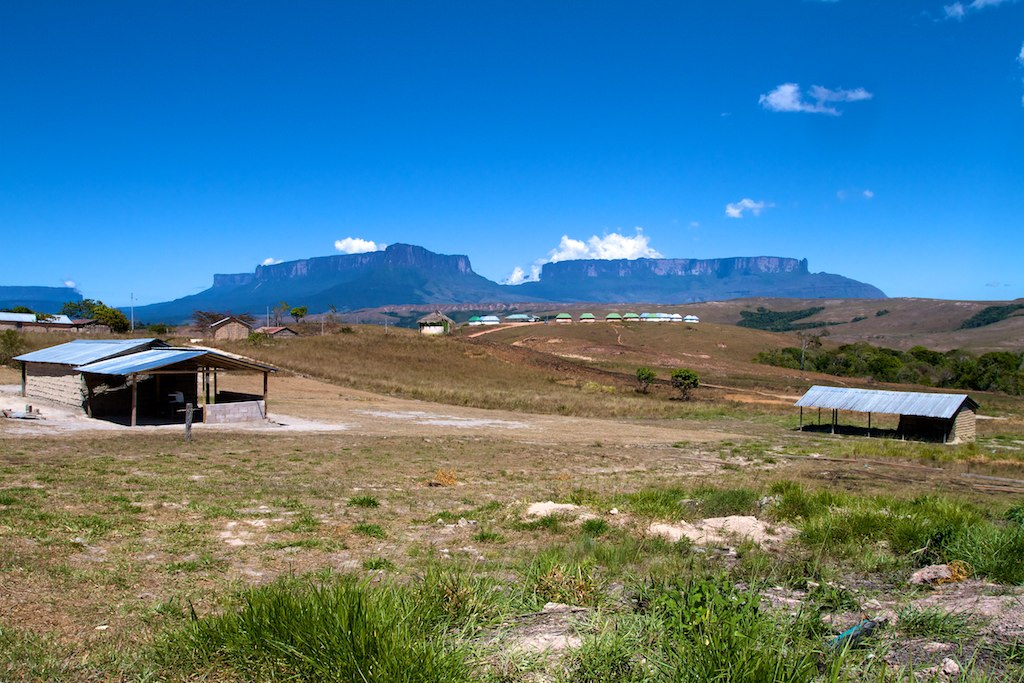 Mount Roraima and Kukenan with a village in Venezuela